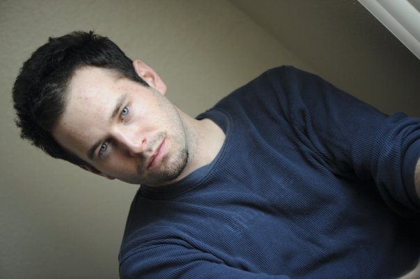 Brent Morin